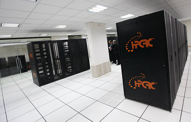 Supercomputer of AUT: note there are no computers in the box